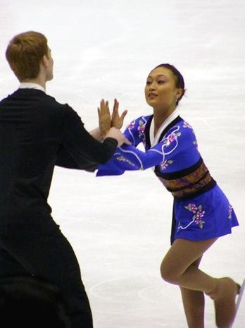 Utako Wakamatsu and Jean-Sébastien Fecteau at the 2004 NHK Trophy.